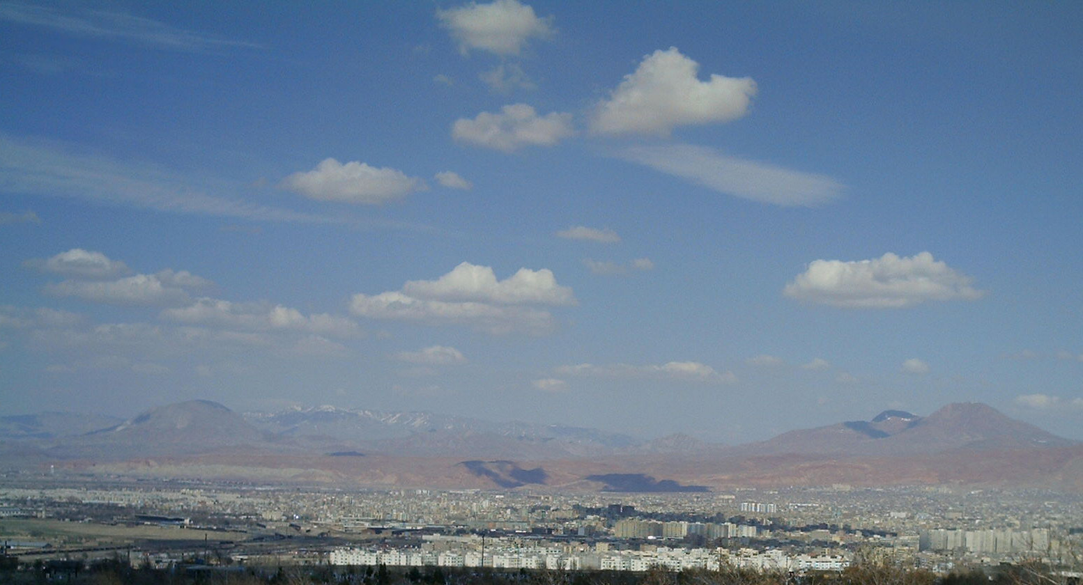 A view of Tabriz at the end of winter.